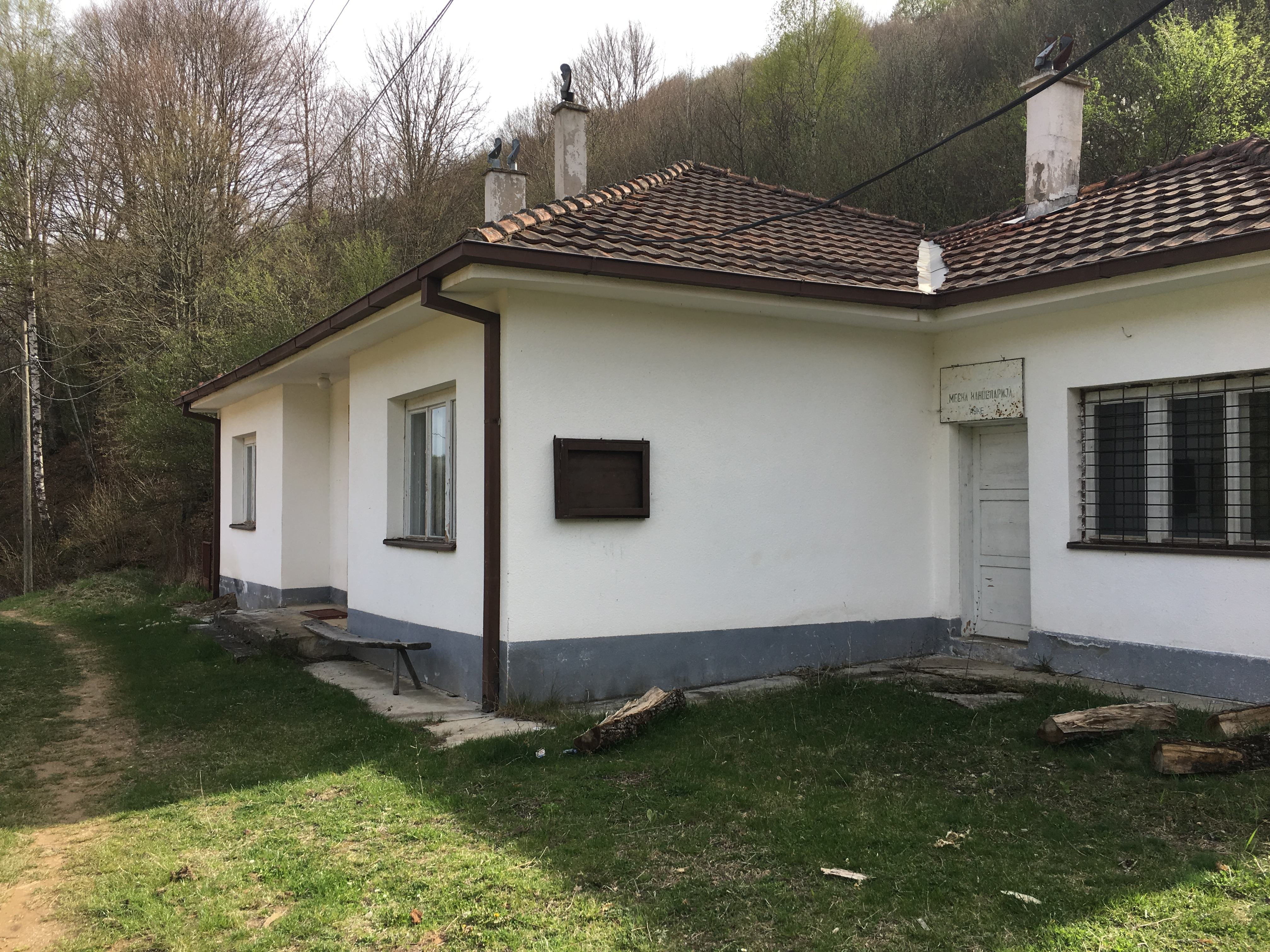 A health facility in the village of Luke